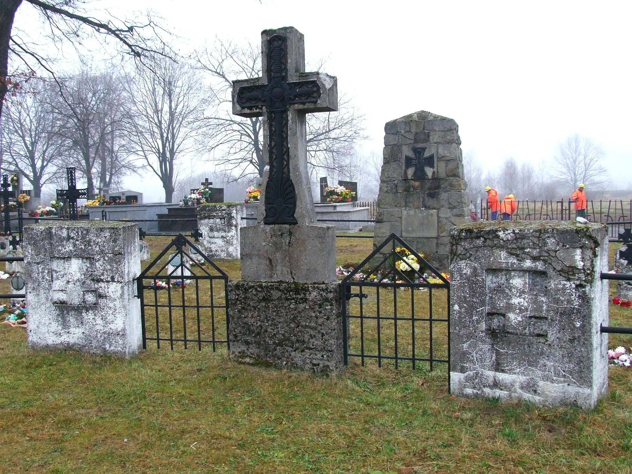 World War I Cemetery nr 270 in Bielcza